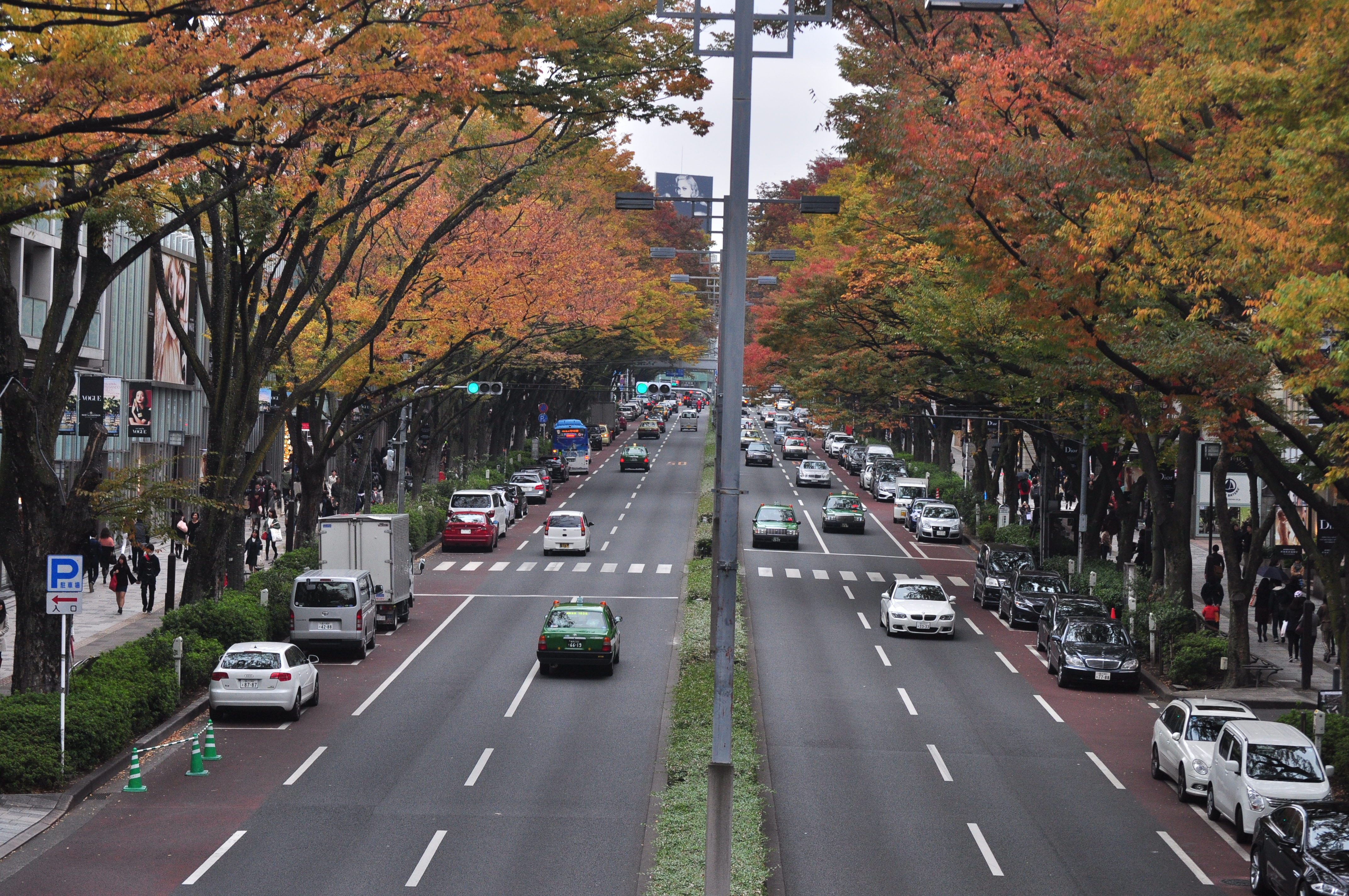 Omotesando, Harajuku, Tokyo, Japan.